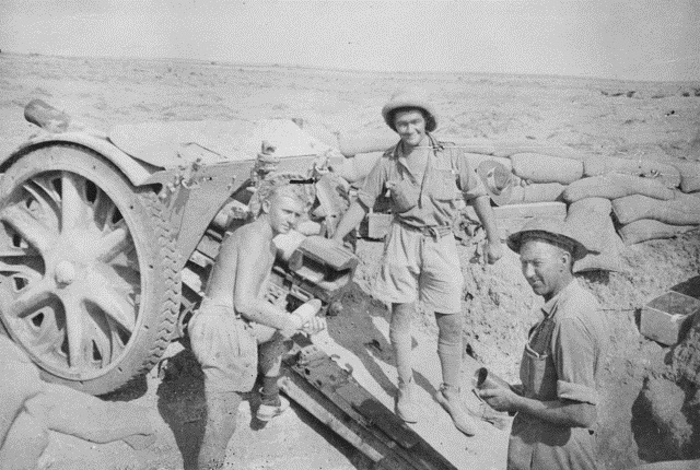 Gunners from the Australian 2/12th Field Regiment manning a captured Italian gun at Tobruk